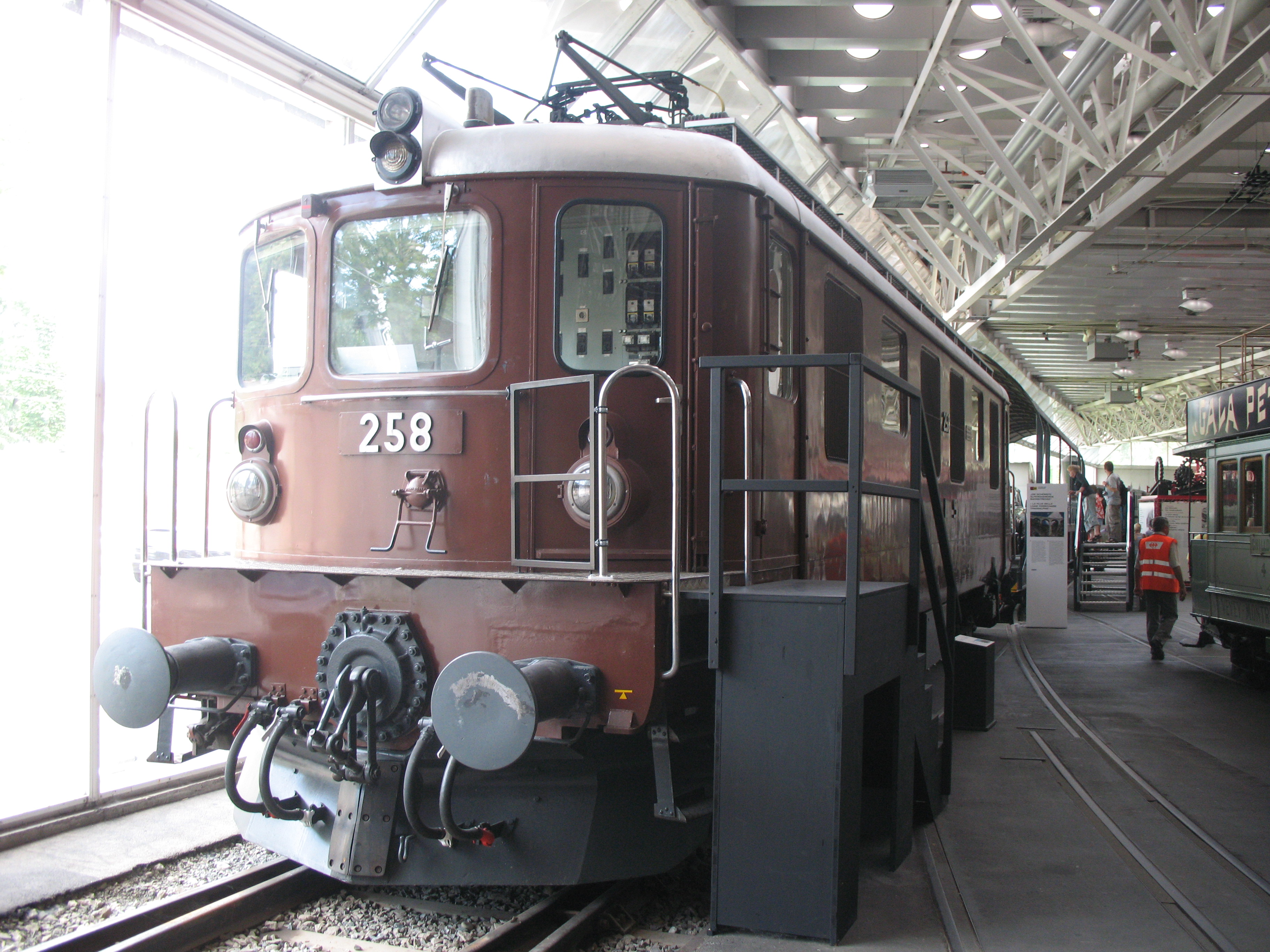 BLS Ae 4/4 in the Swiss Transport Museum, Luzern, Switzerland